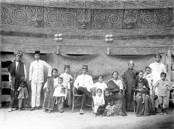 Negative. Adathuizen, usually built and occupied by and possession of a large group of relatives, had the wealth of the "extended family" show. Both the Toba Batak and the Minangkabau were inter alia by means of highly complex and detailed carving patterns that were sometimes even painted. For this, besides the bars, the walls were used, usually not bearing. So they got a bit of lace walls were road side. On the picture is a piece of craft work on display, namely the pandan mat behind the family group. This is probably an artistic intervention of the photographer. (P. Orchard, 2001). Toba Batak head with his family in their home with beautifully carved head of Toba Batak family "adathuis" Tapanoeli, North Sumatra, c. 1900